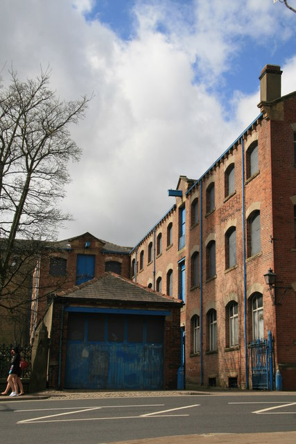 Square Works, Halifax These buildings back on to the Piece Hall and house the Calderdale Industrial Museum. THis is currently closed/mothballed and has been for quite a while. There are four stationary steam engines in there and three were workable. There was also a workable internal combustion engine and lots of other equipment. I wonder if it will ever open again?